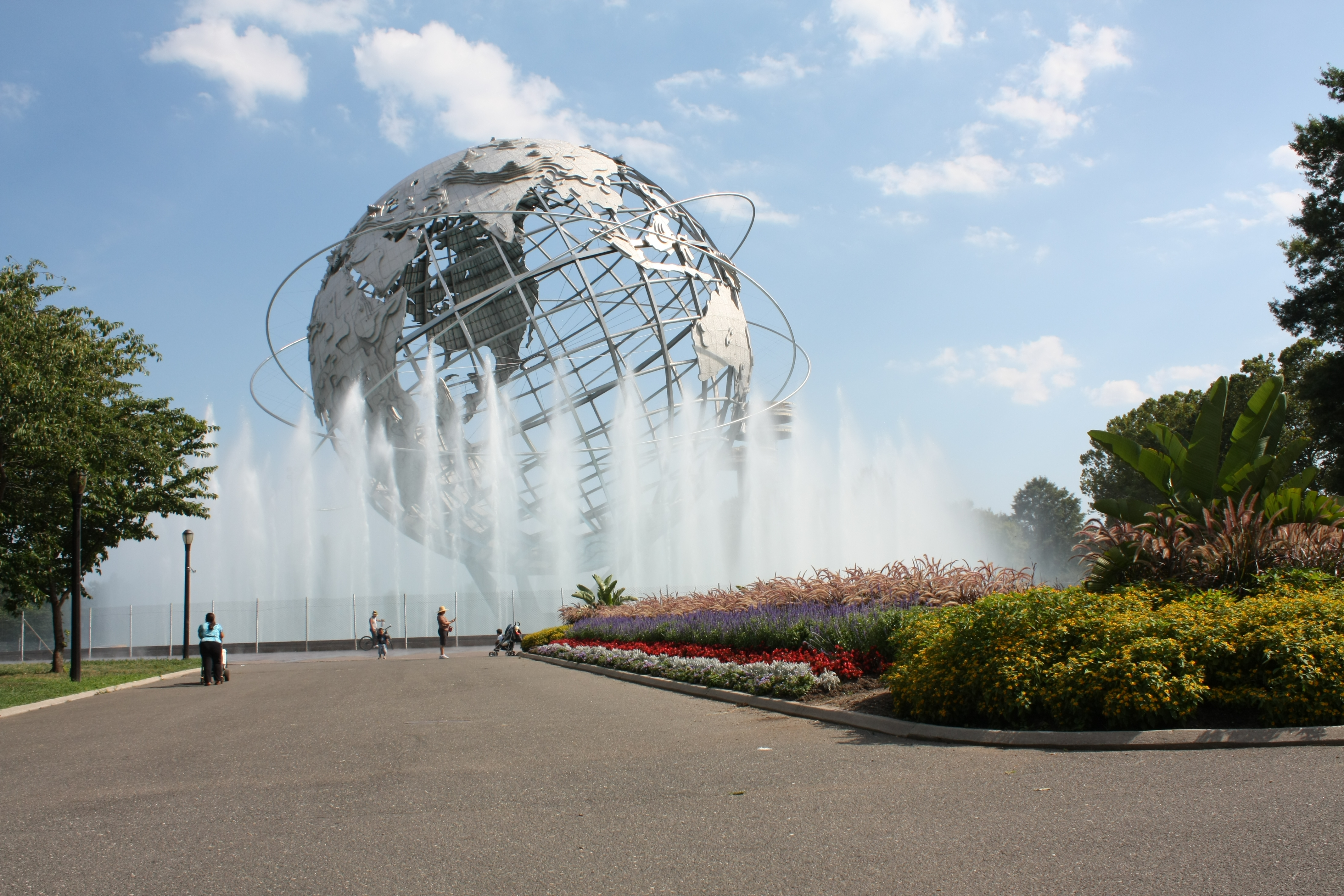 Photo of the Unisphere, showing the fountains